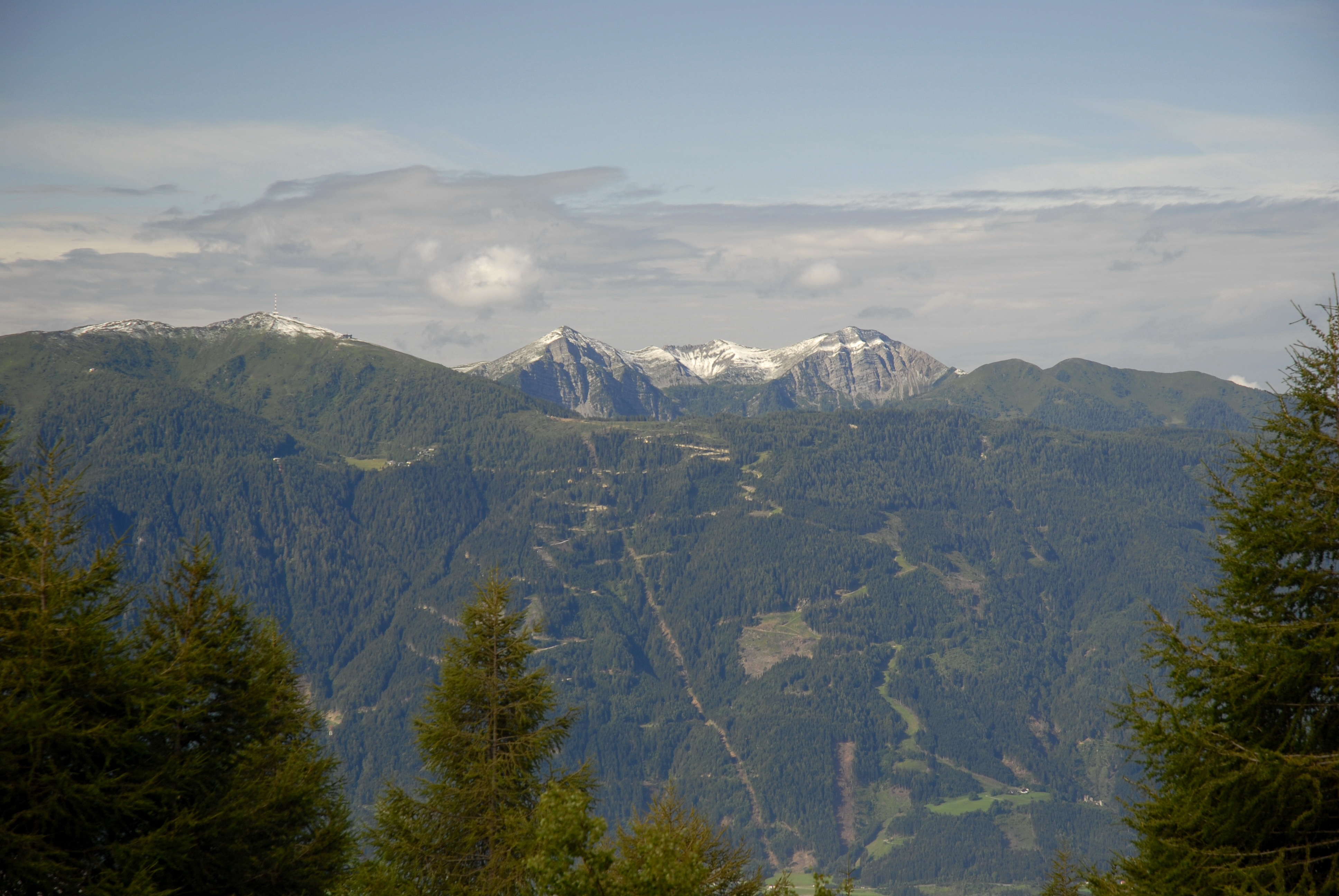 View to the Latschurgruppe from Northeast